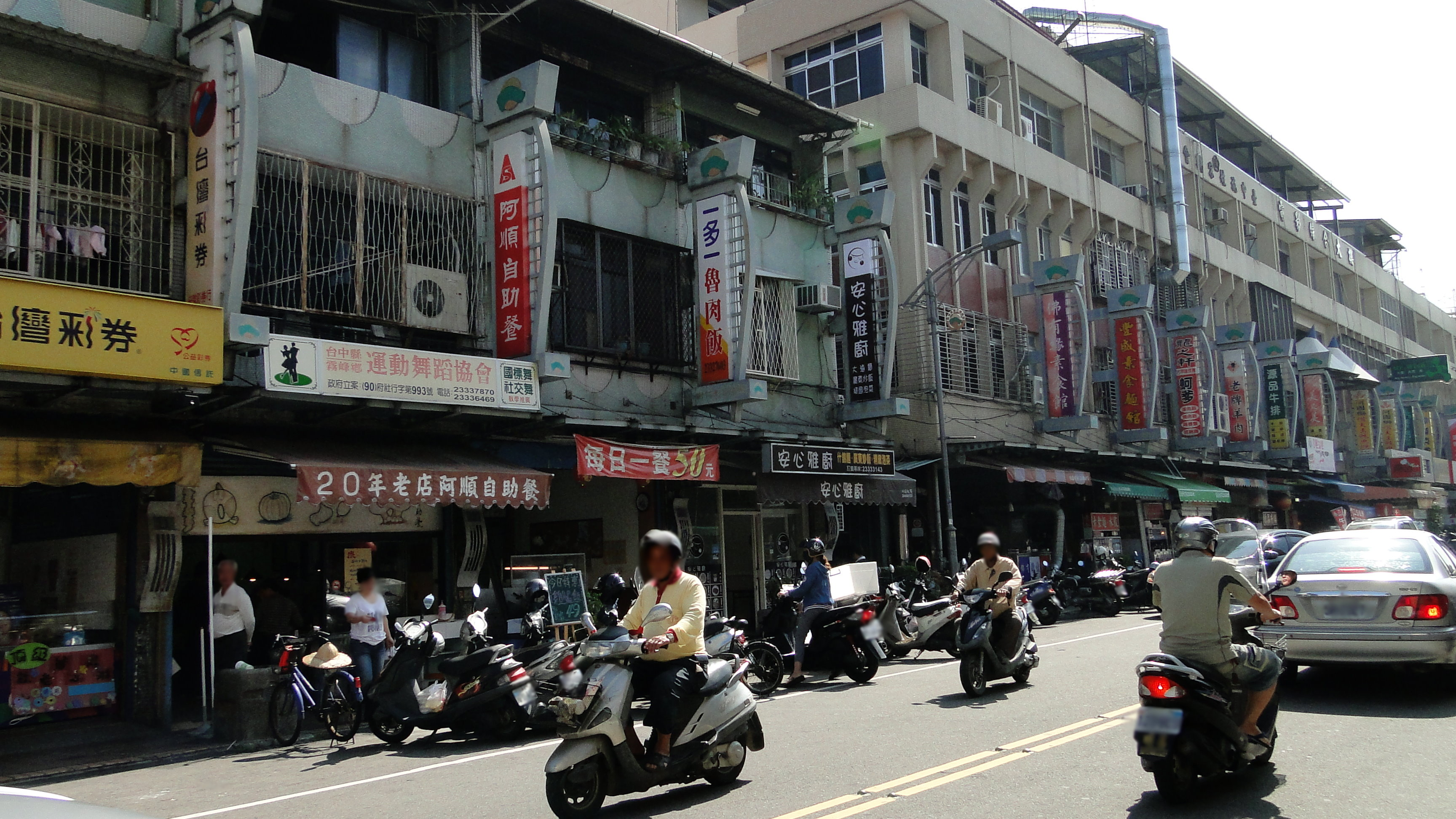 Shu Ren Rd., Wufeng, Taichung. Day